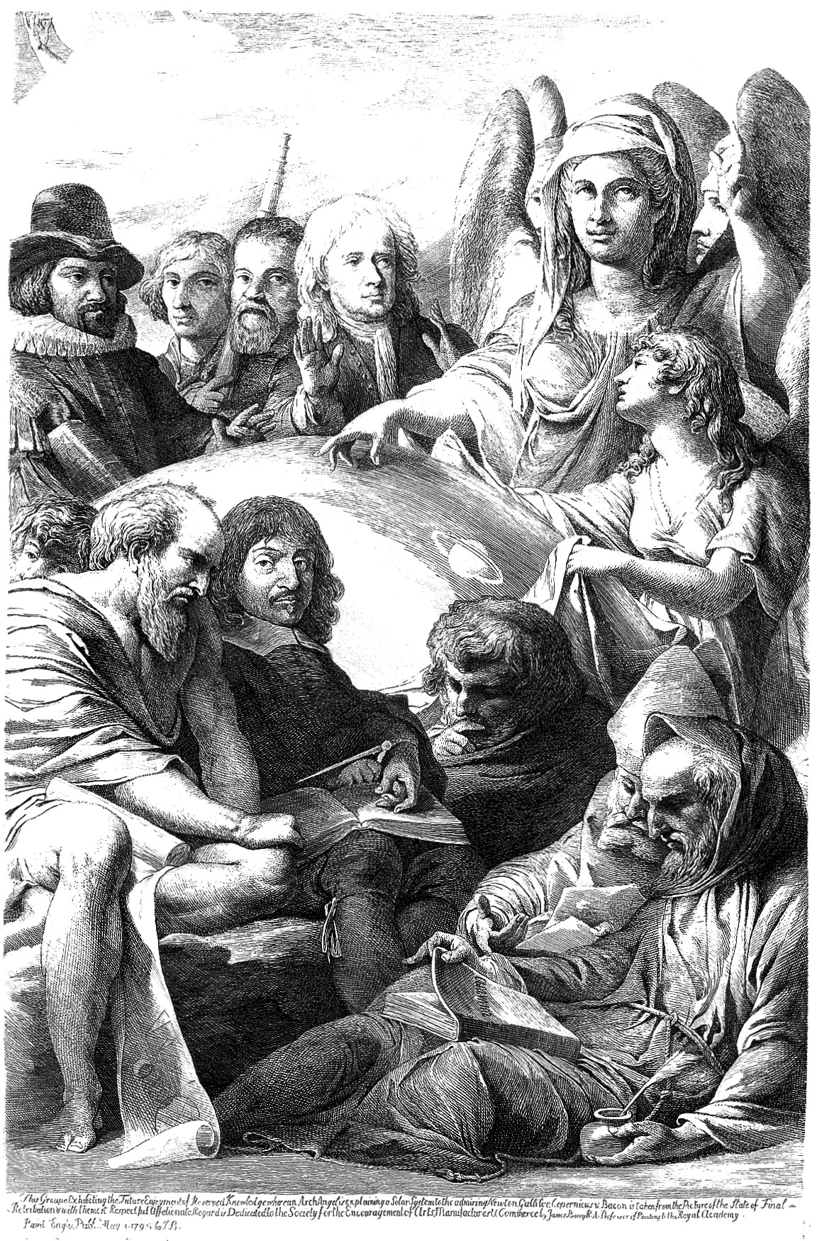 An archangel revealing the physical nature of the universe to a group of natural philosophers and mathematicians. Etching by James Barry, 1795, after his painting. Iconographic Collections Keywords: Francis Bacon; Nicolaus Copernicus; Galileo Galilei; Isaac Newton; Thales; René Descartes; Archimedes; Robert Grosseteste; Roger Bacon; James Barry